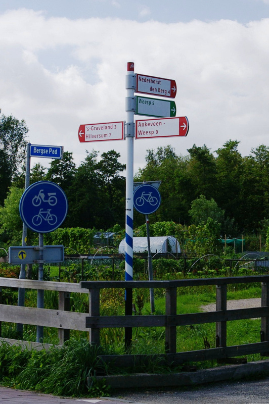 signpost for bicyle at Ankeveen, Netherlands